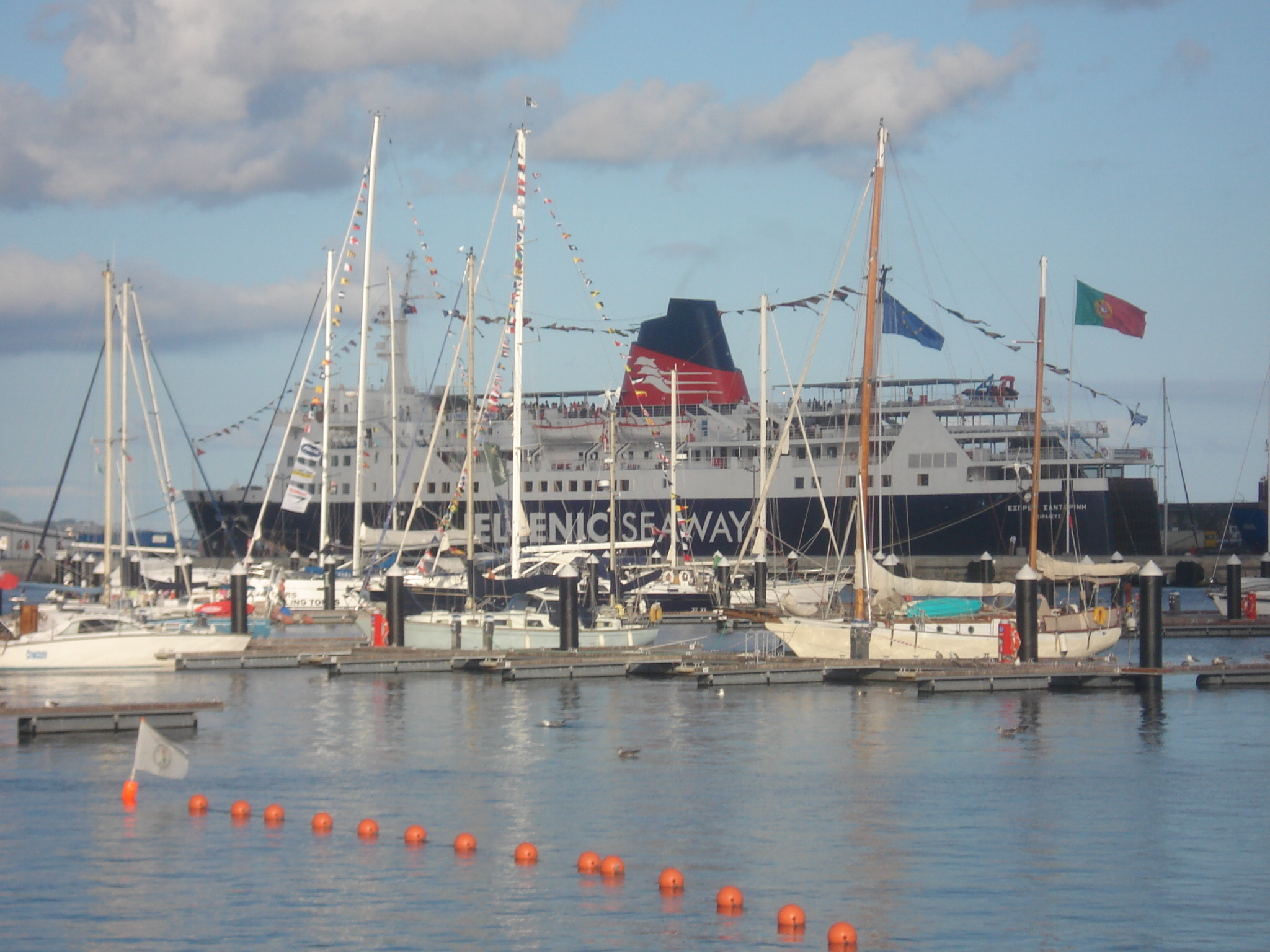 A view of the marina and Express Santorini alongside the Portas do Mar terminal, municipality of Ponta Delgada (Azores), Portugal